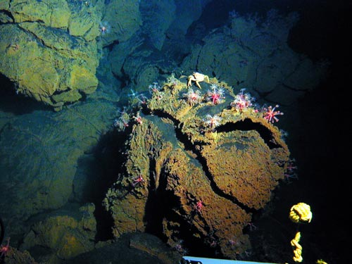 Dense beds of soft octocorals, Anthomastus sp., colonize the highest points around the rim of the volcano.